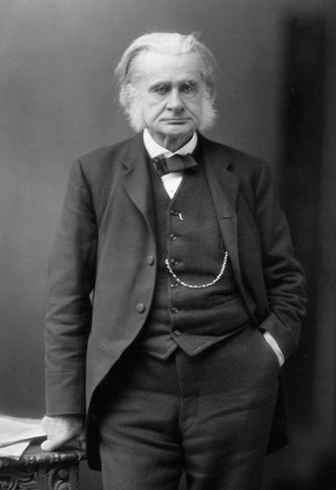 photo of Thomas Henry Huxley